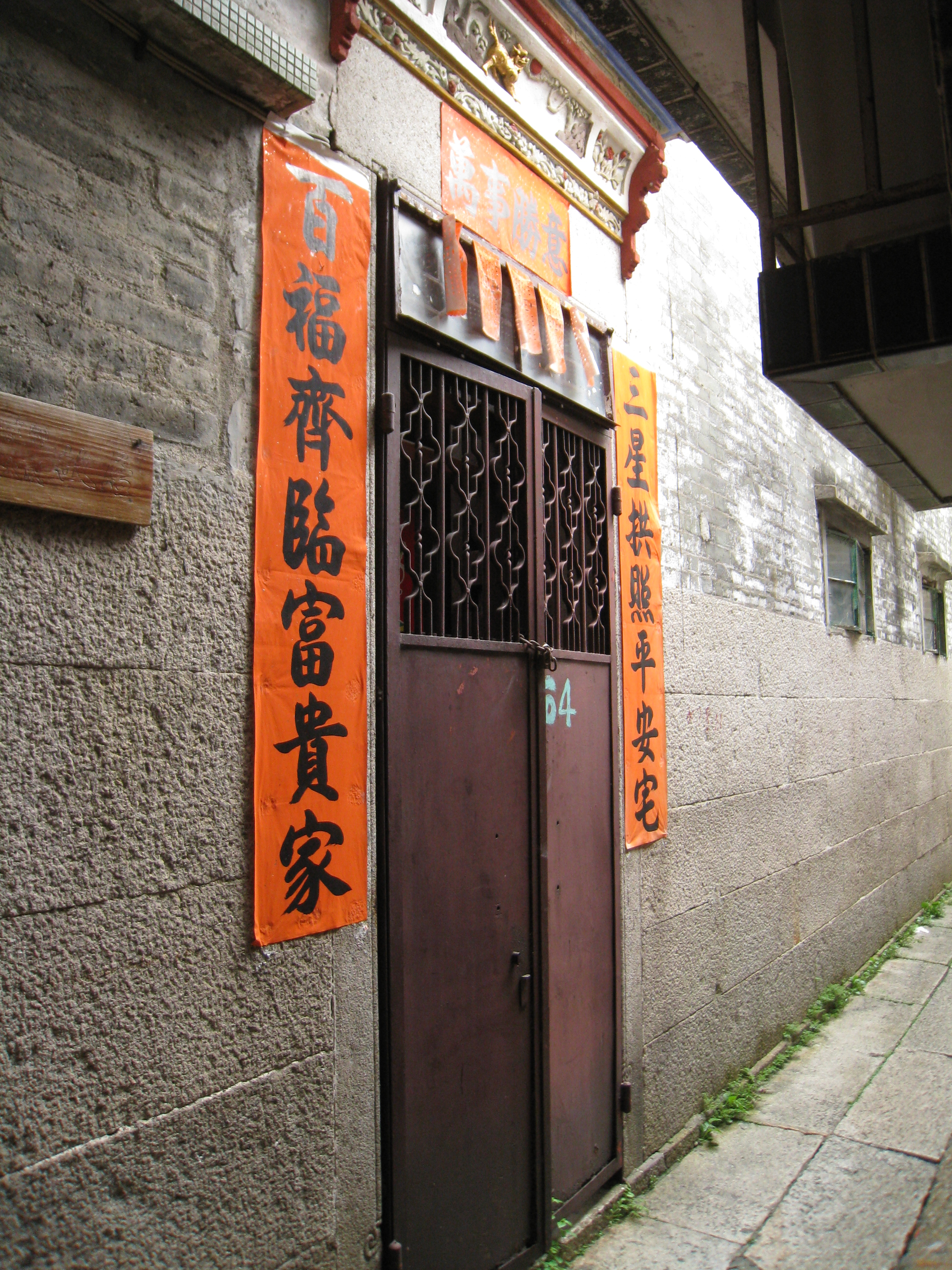 HK Ping Shan No. 64 Hang Mei Tsuen